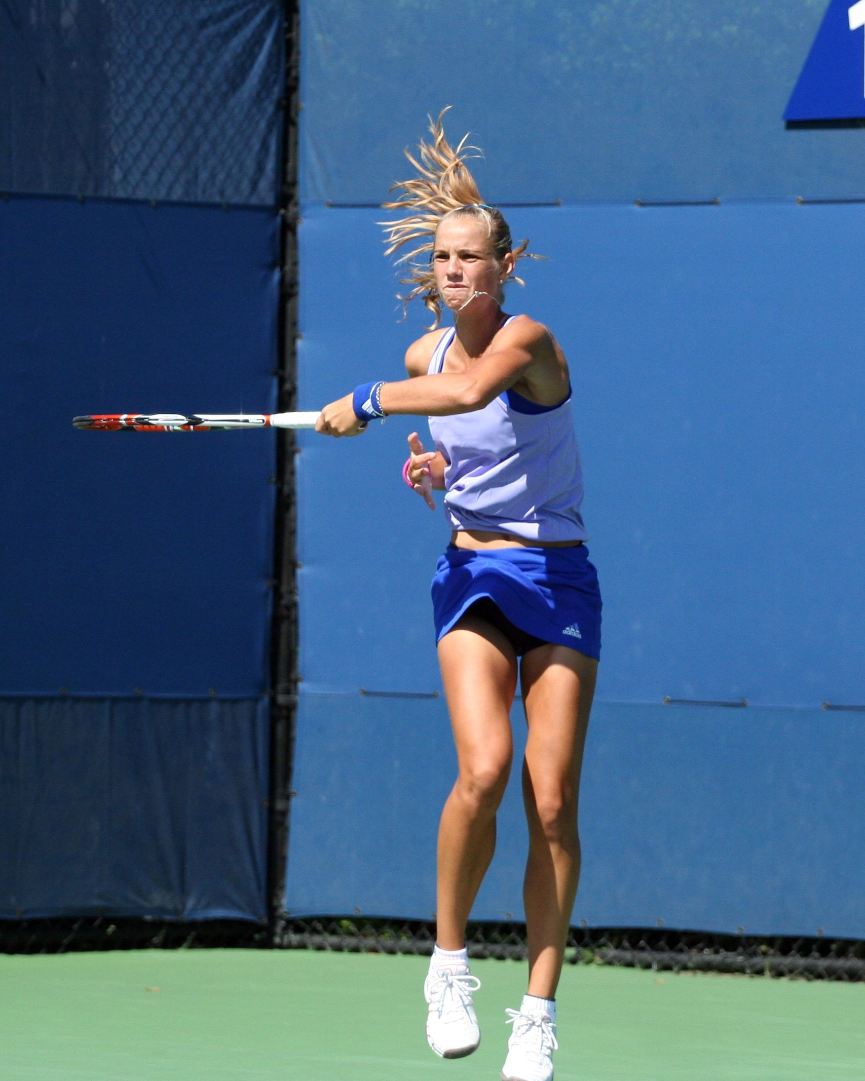 U.S. Open Tuesday, Sept. 1, 2009